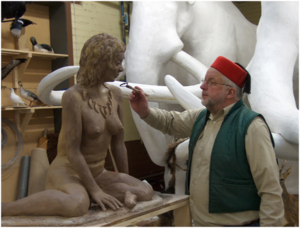 Madame Pataud